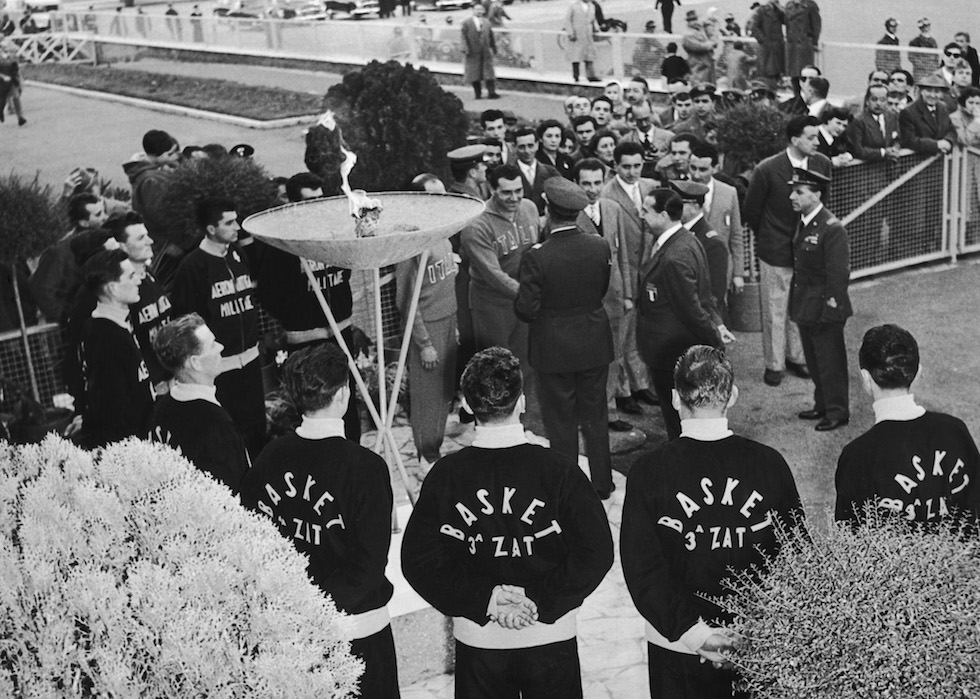 «General Porro, chief of the Italian Air Force, congratulates members of his country's Olympic team at Ciampino Airport, Rome, 22nd January 1956. The athletes are due to take the Olympic flame to Cortina for the 1956 Winter Olympics».